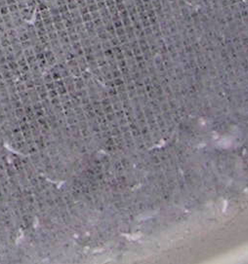 Dryer screen containing accumulated lint.